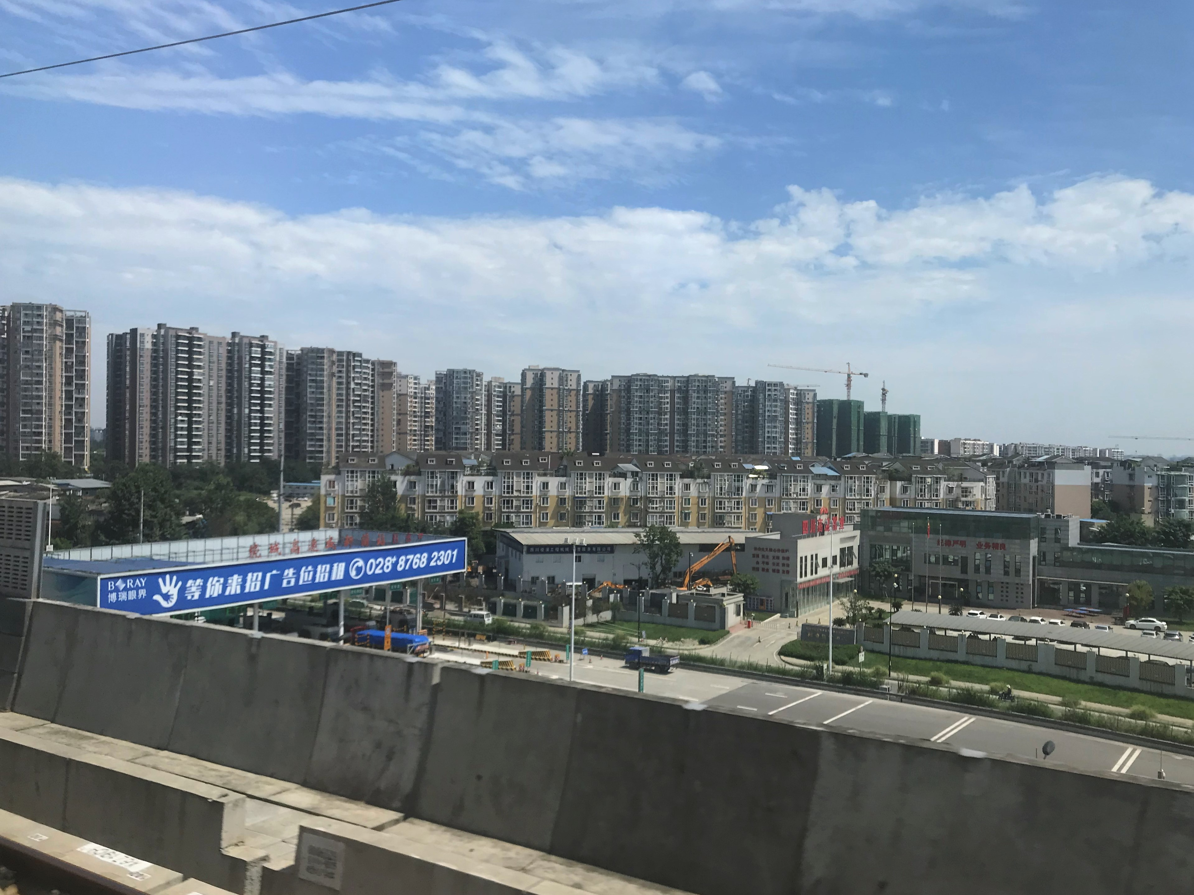 201908 Caojin, Cuqiao, Wuhou District